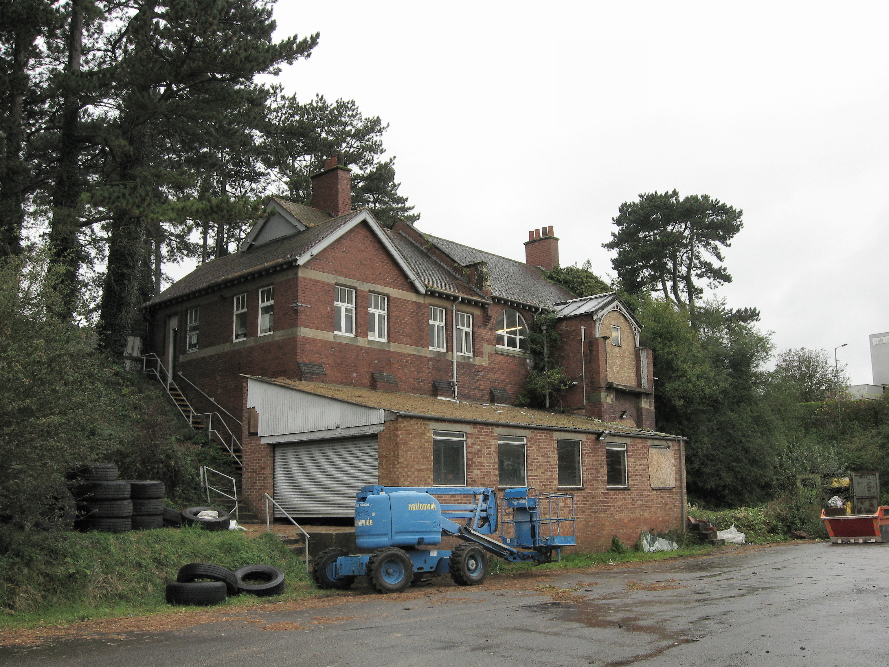 Brackley Central Station from the Platform Site, October 2008